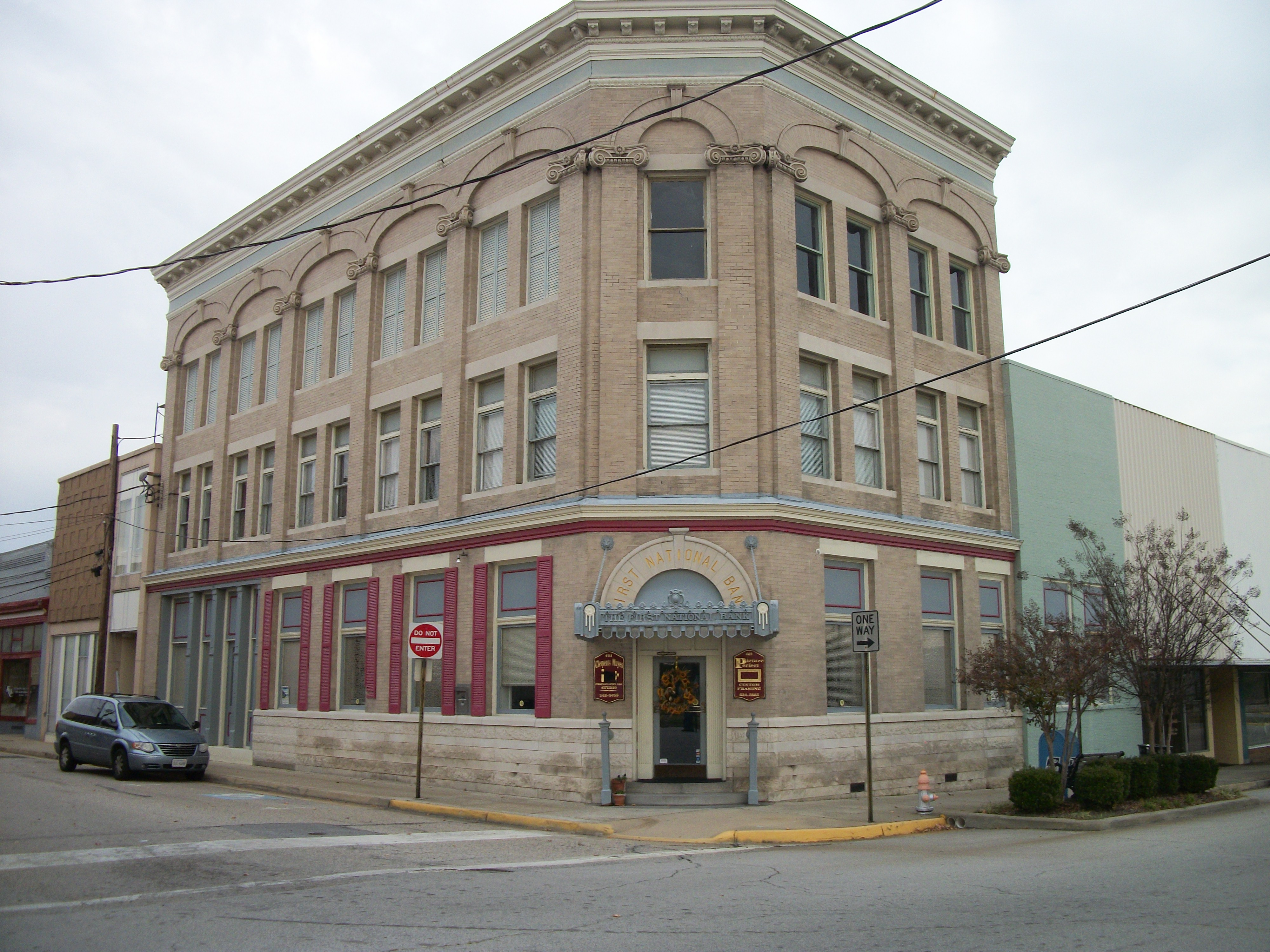 The former First National Bank Building in Emporia, Virginia, part of the Belfield-Emporia Historic District.